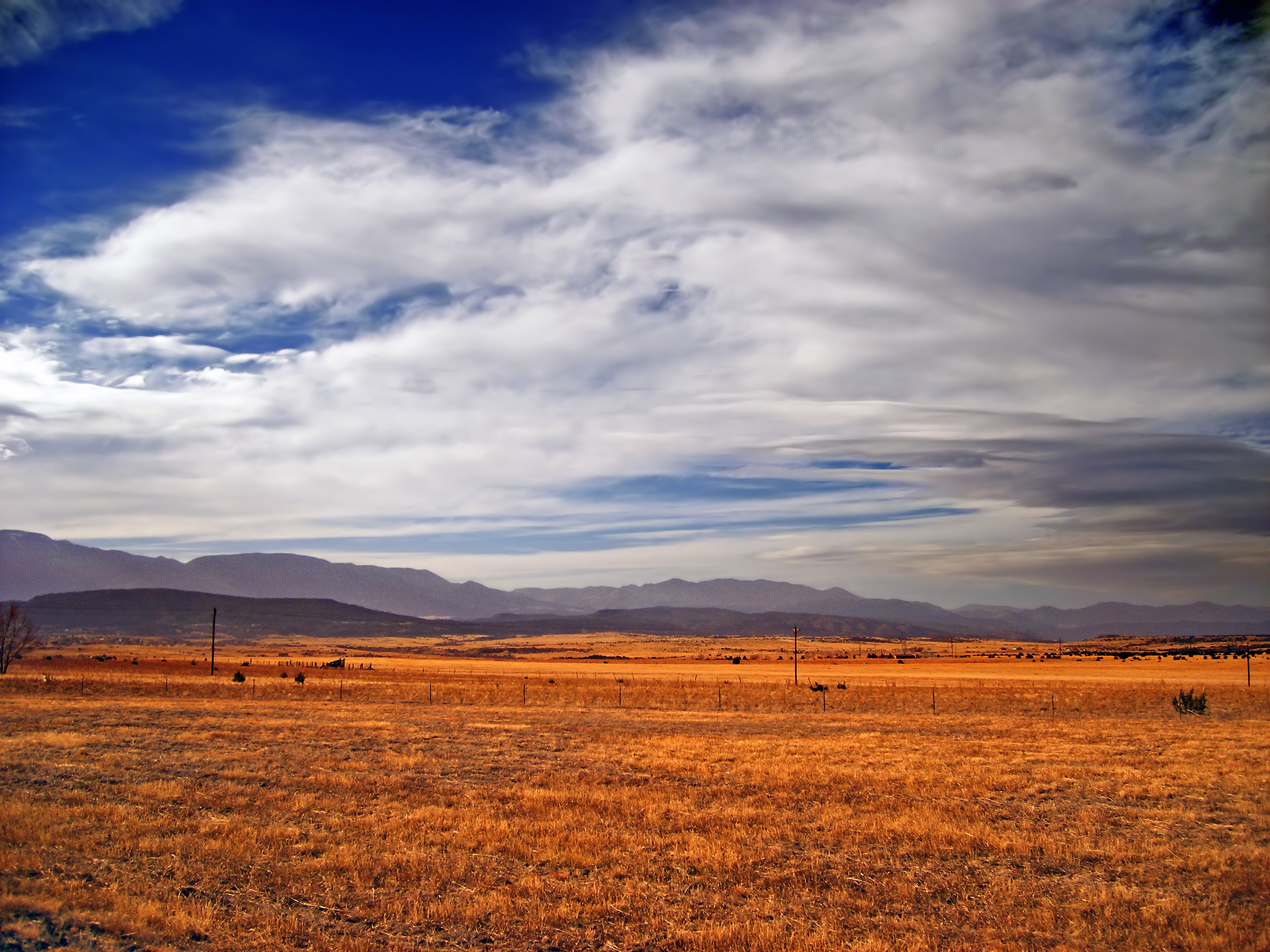 Short-grass prairie along the front range of the Rockies, south-central Colorado, as seen from Interstate 25.